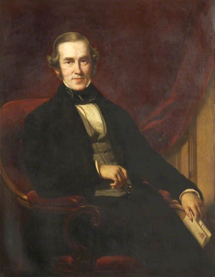 portrait of Thomas Berry Horsfall, MP